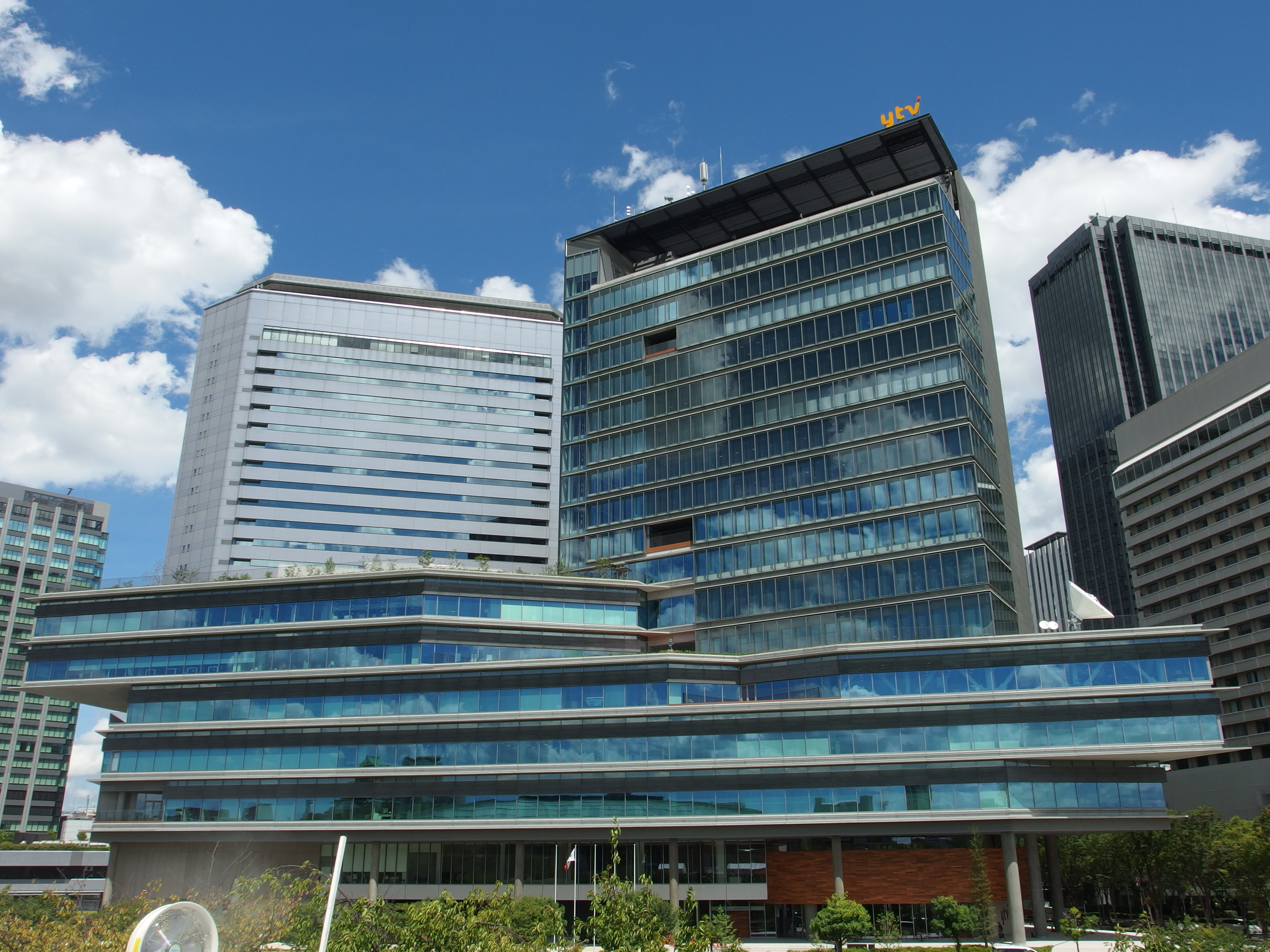 Yomiuri Telecasting Corporation in Osaka, Osaka Prefecture, Japan.